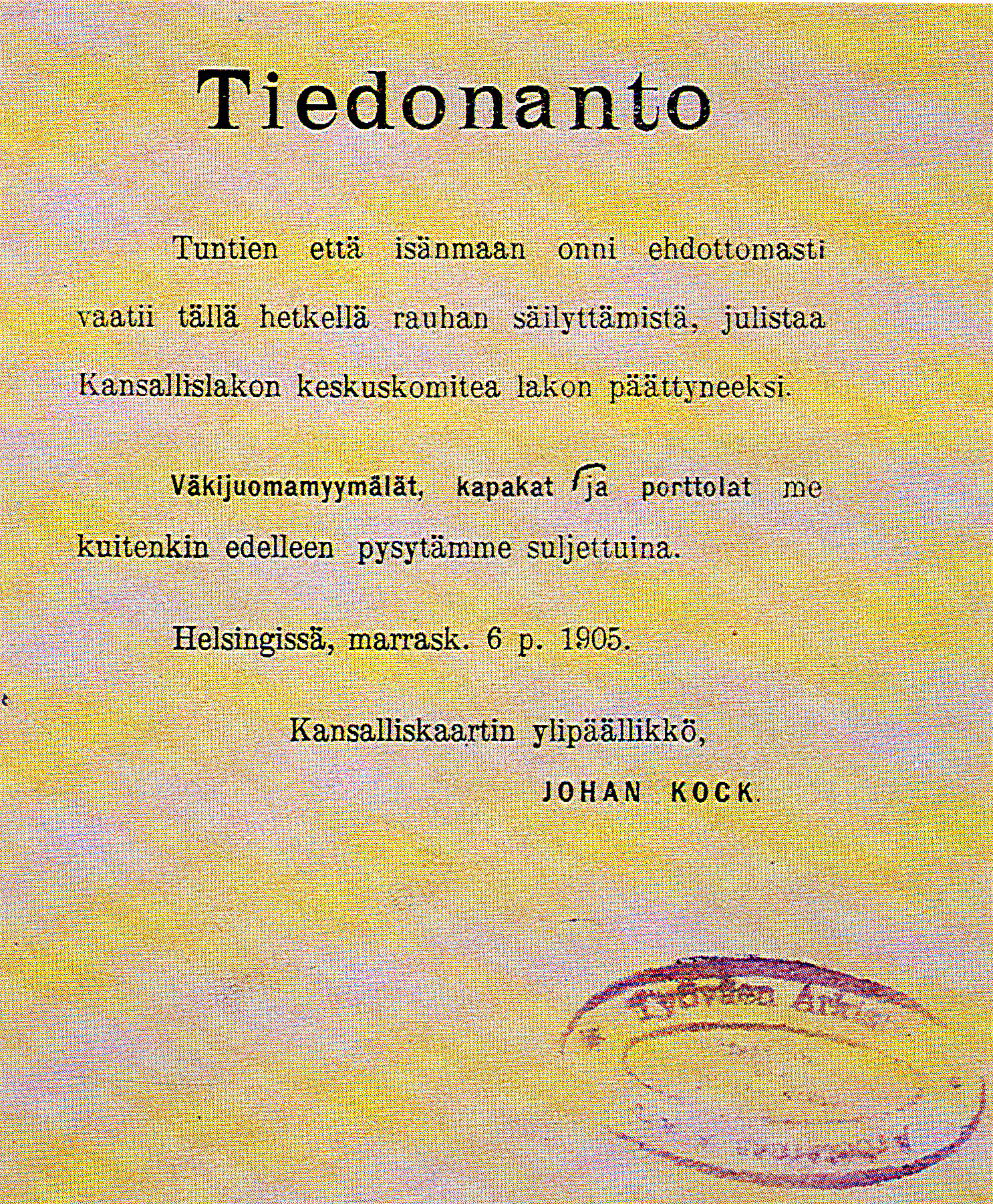 Captain Johan Kock's order of ending the general strike in Finland.